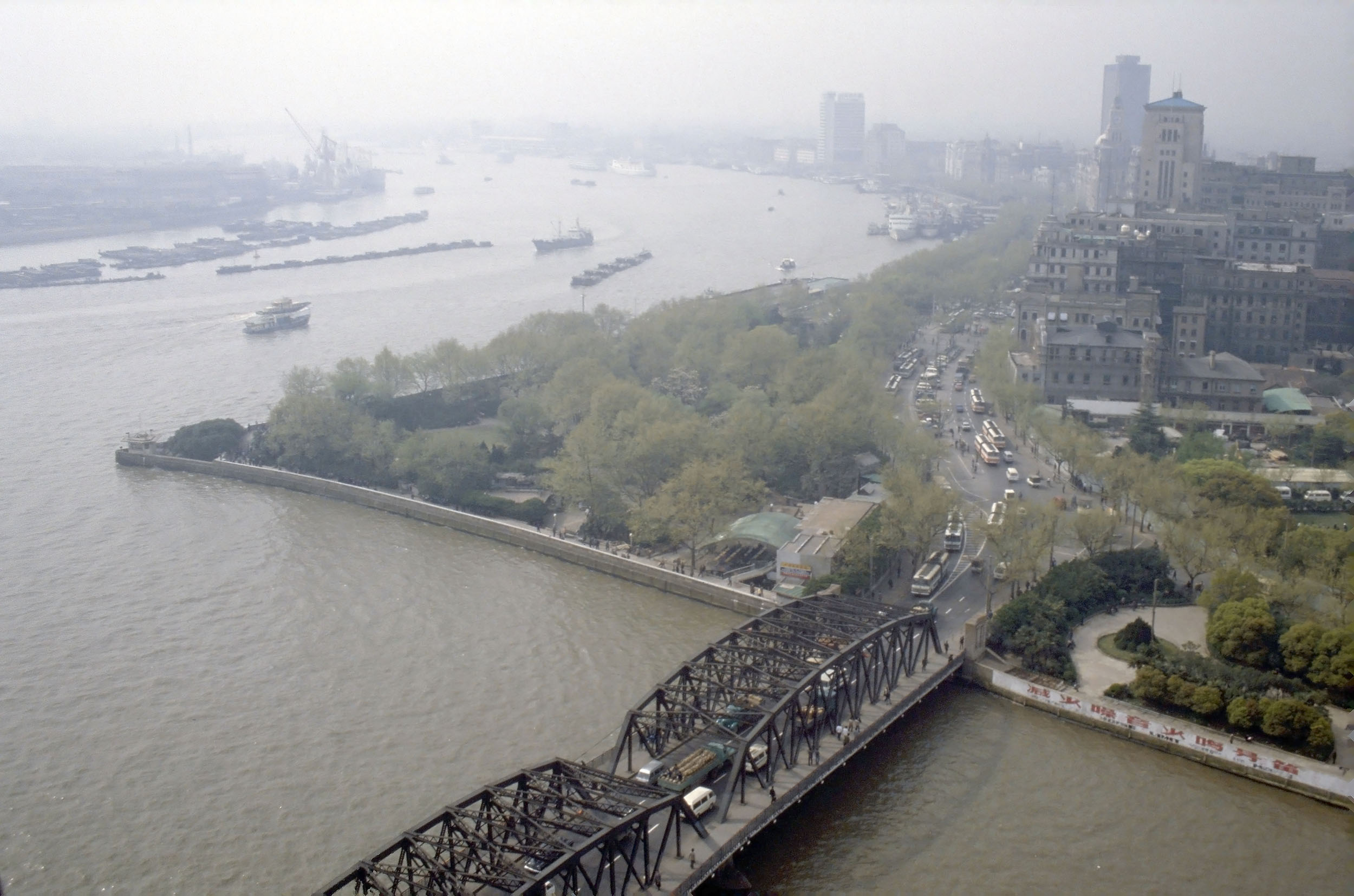 Shanghai: The Bund, view from north (Shanghai Daxia)